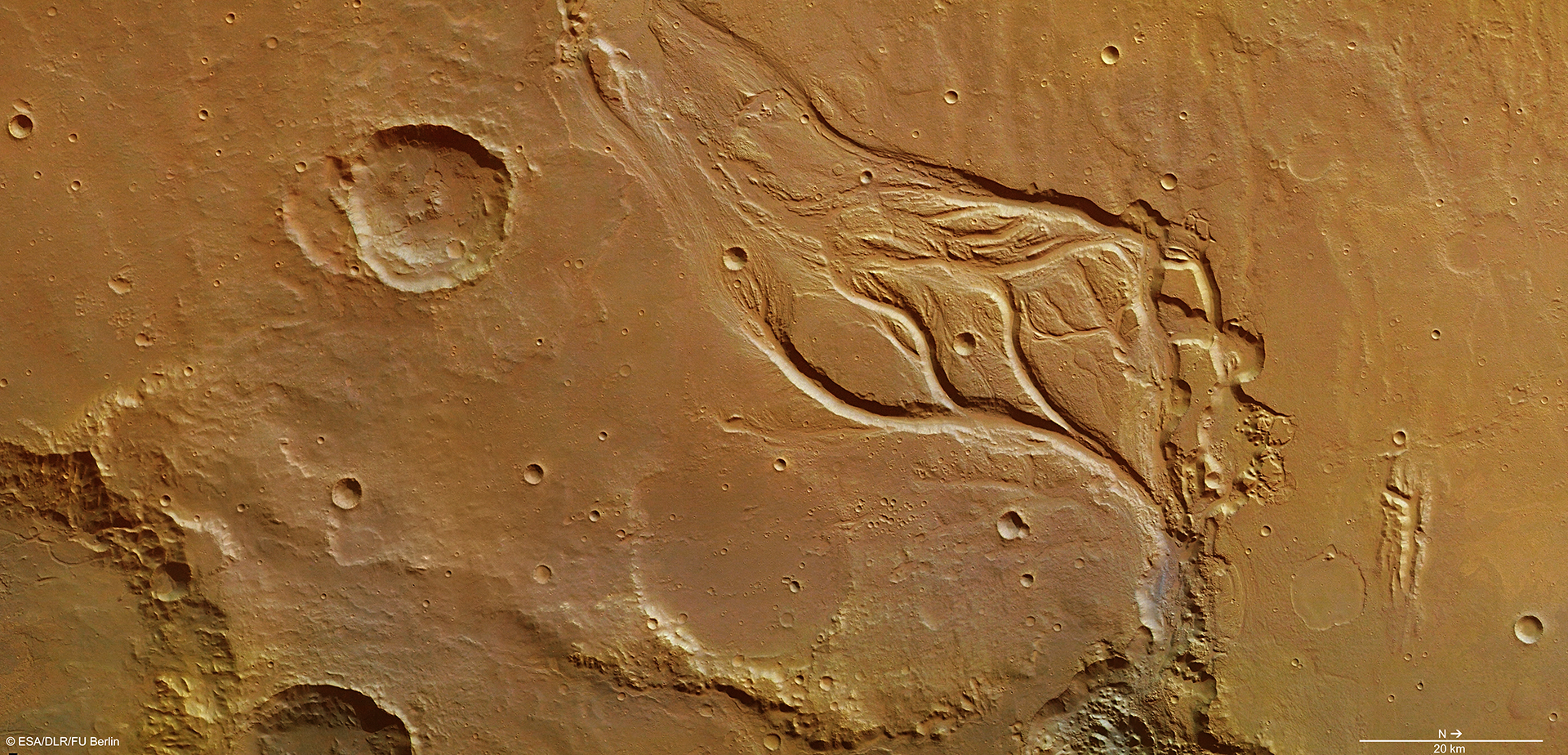 The central portion of Osuga Valles, which has a total length of 164 km. In some places, it is 20 km wide and plunges to a depth of 900 m. It is located approximately 170 km south of Eos Chaos, which is located at the periphery in the far eastern portion of the vast Valles Marineris canyon system. Catastrophic flooding is thought to have created the heavily eroded Osuga Valles, which displays streamlined islands and a grooved floor carved by fast-flowing water. The water flowed in a northeasterly direction (towards the bottom right in this image) and eventually drained into another region of chaotic terrain, just seen at the bottom of the image. Several large impact craters are also seen in this scene, including the ghostly outline of an ancient, partially buried crater in the bottom centre of the image. The image was created using data acquired with the High Resolution Stereo Camera on Mars Express on 7 December 2013 during orbit 12 624. The image resolution is about 17 m per pixel and the image centre is at about 15ºS / 322ºE. Credit: ESA/DLR/FU Berlin, CC BY-SA 3.0 IGO Copyright Notice: This work is licenced under the Creative Commons Attribution-ShareAlike 3.0 IGO (CC BY-SA 3.0 IGO) licence. The user is allowed to reproduce, distribute, adapt, translate and publicly perform this publication, without explicit permission, provided that the content is accompanied by an acknowledgement that the source is credited as 'ESA/DLR/FU Berlin’, a direct link to the licence text is provided and that it is clearly indicated if changes were made to the original content. Adaptation/translation/derivatives must be distributed under the same licence terms as this publication. To view a copy of this license, please visit